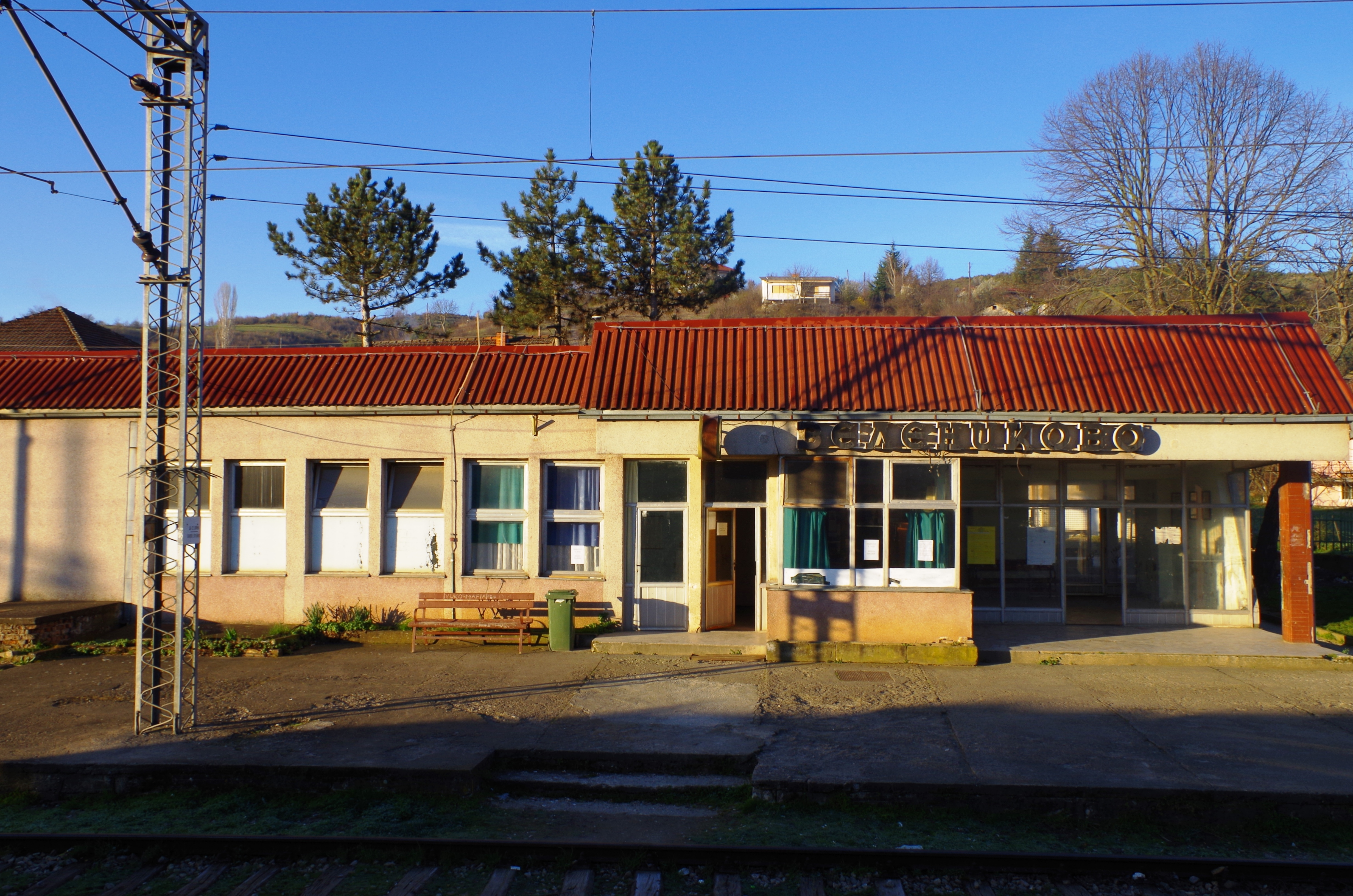 The Zelenikovo Railway Station, Skopje Region, Macedonia.